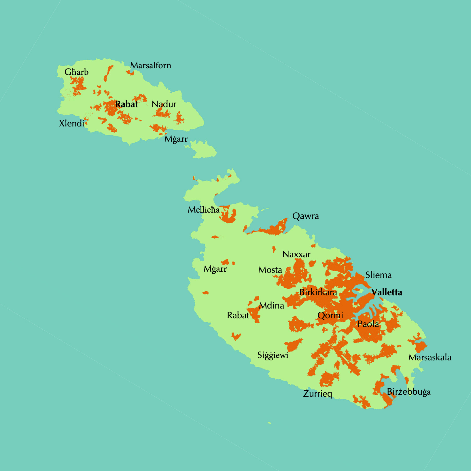 Built in regions on the Maltese islands